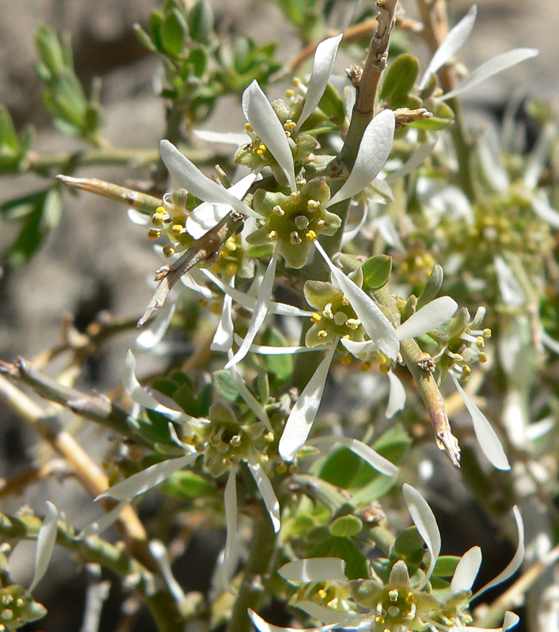 Glossopetalon spinescens var. aridum in the rocks at the junction of the BSA road with 160 east of the Mountain Springs summit, Spring Mountains, southern Nevada (elev. about 1700 m)